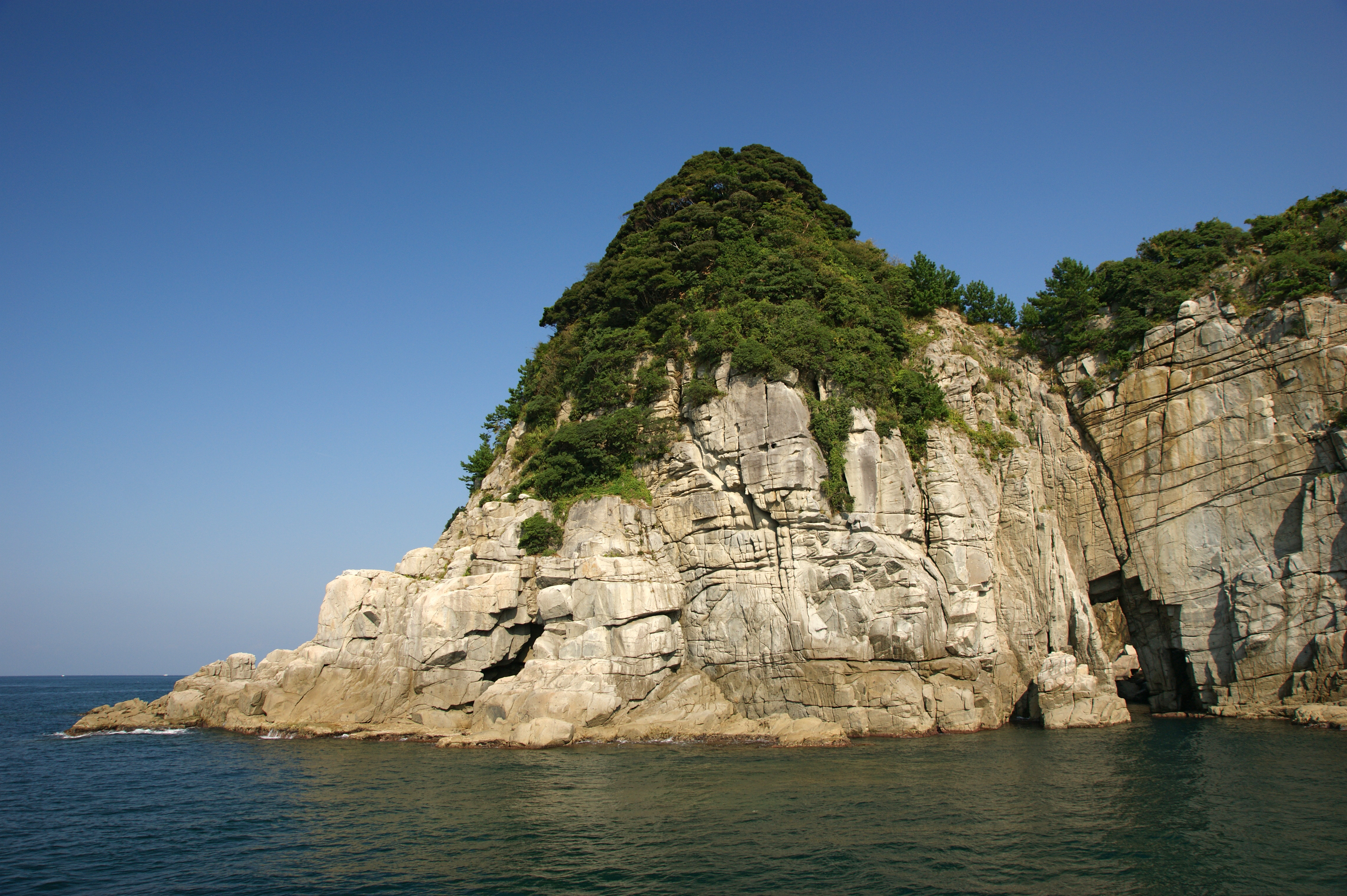 Sotomo, Obama, Fukui prefecture, Japan